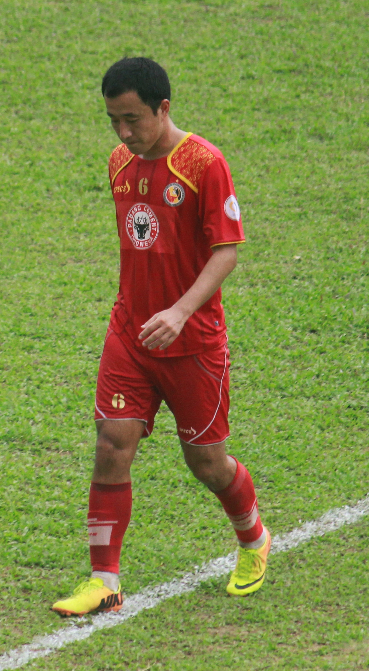 Yu Hyun Koo playing for Semen Padang against Sime Darby, 30 December 2013 in Padang.